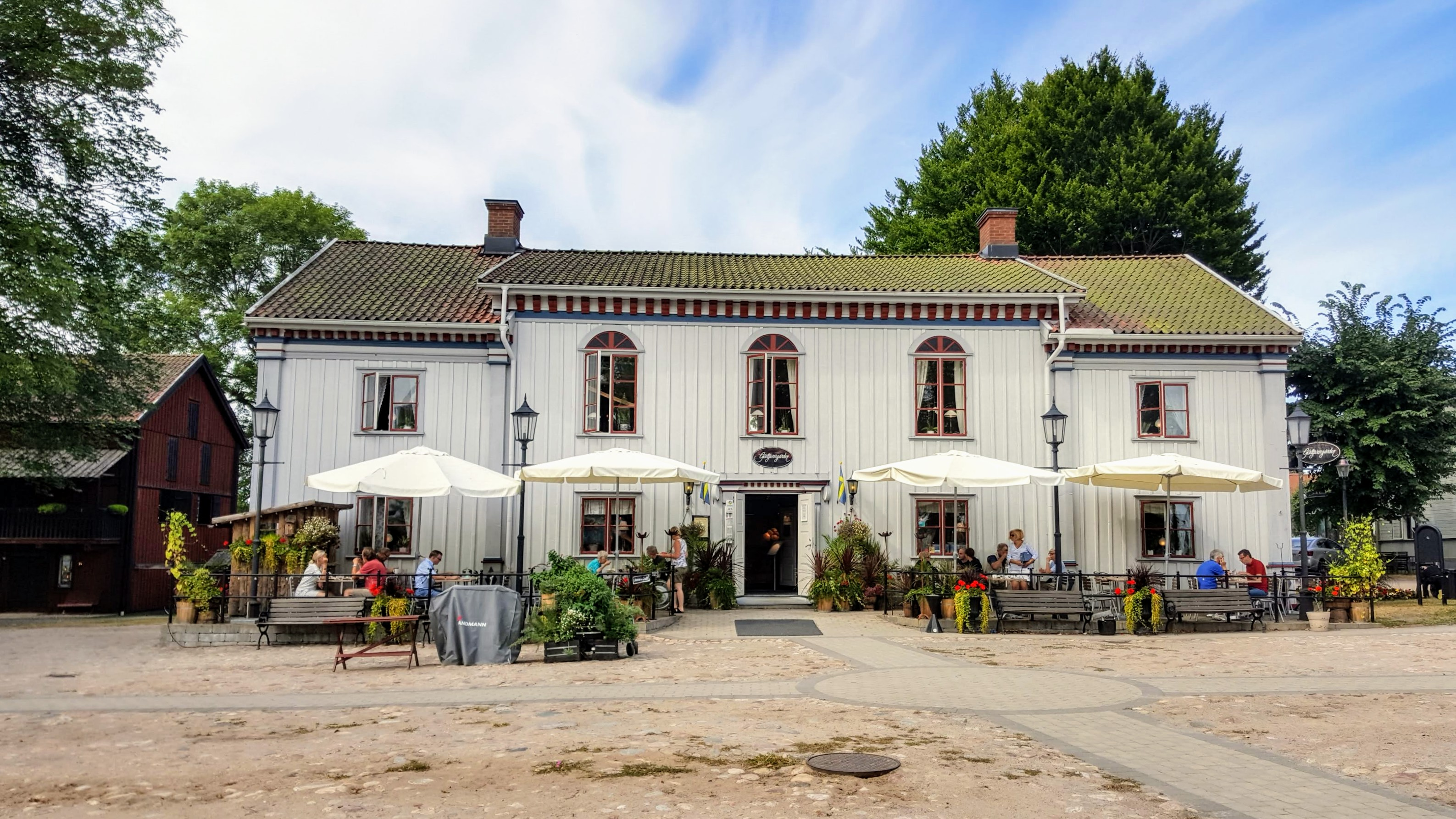 Gästgivaregården in Ljungby, Sweden, built between the years 1818-1820. Formerly an inn, nowadays a restaurant. Had an historical important part in the foundation of the town Ljungby.